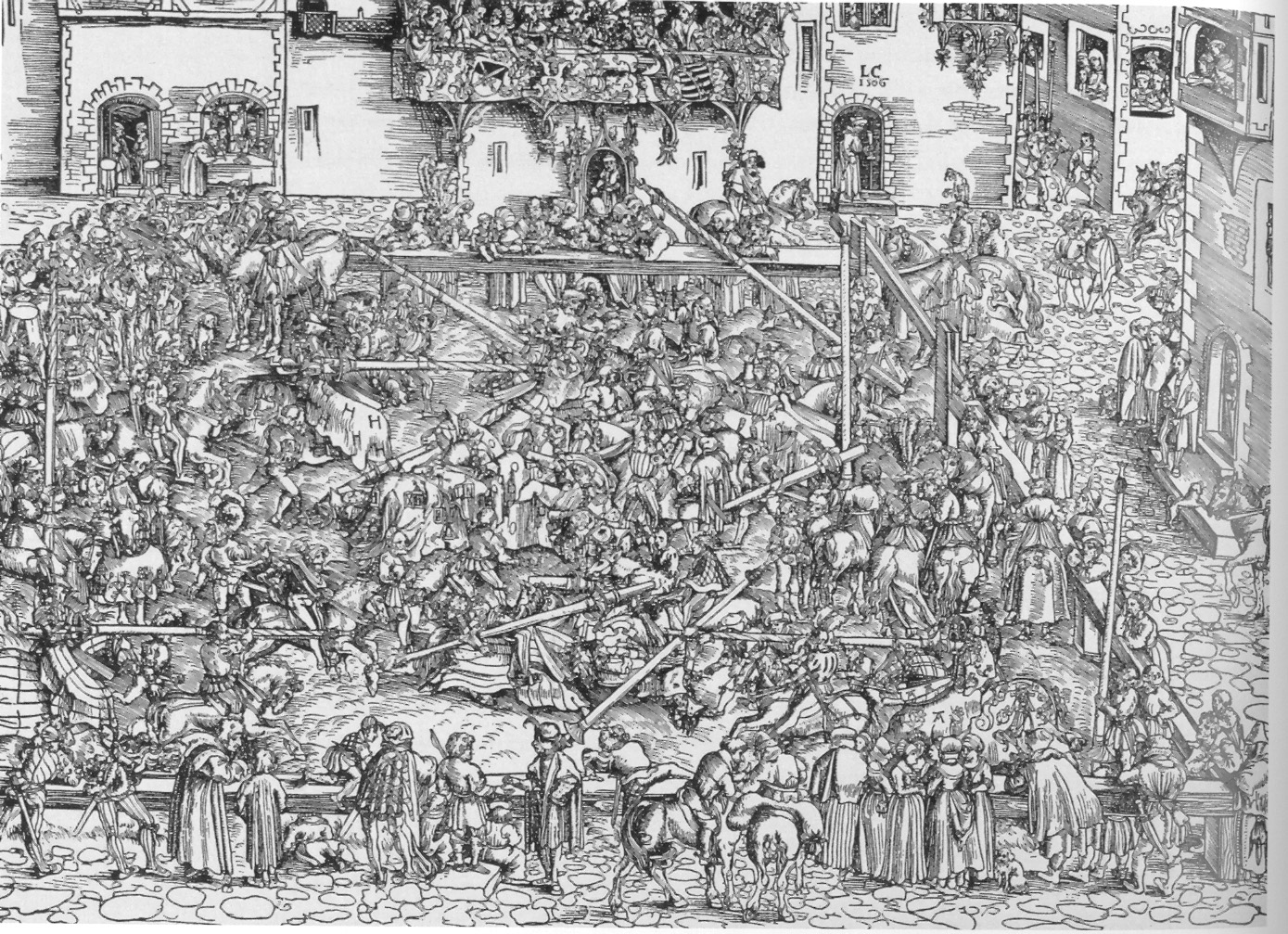 Joust in the marketplace